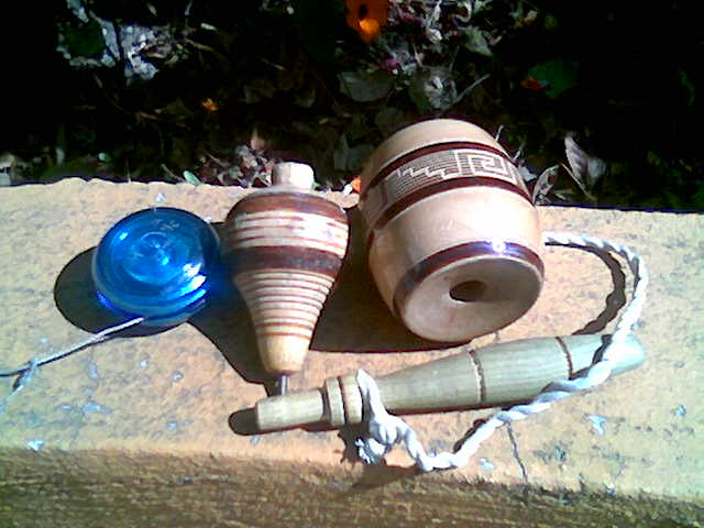 Image of a yo-yo, a spinning top, and a balero, the most typical juggling toys.